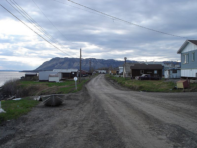 Tulita